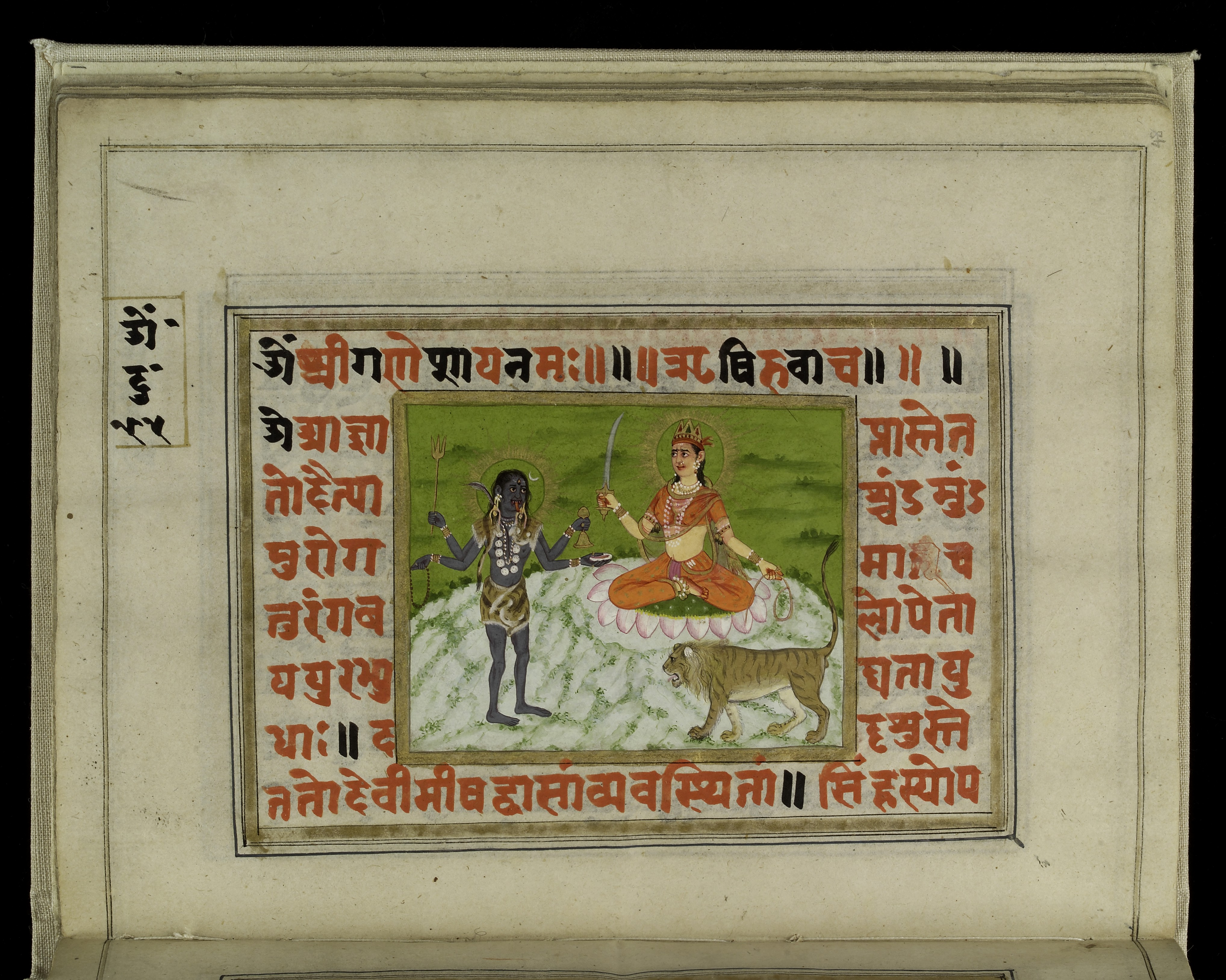 A work celebrating the destruction of a series of demons and their animals by the goddess Devi. Seated right, Devi is seen in her benign form upon a mountain top with a lion as her mount. To the left Devi is shown in her ferocious form, or her alter-ego, Kali, 'Black Lady'. Asian Collection Keywords: Deities; Hindu goddesses; India; Demon; Religion; Hinduism